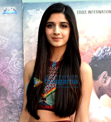 Mawra Hocane during promotions of 'Sanam Teri Kasam' at Eros office